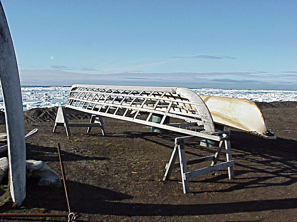 Wood frame for an umiaq skin boat. Barrow Alaska